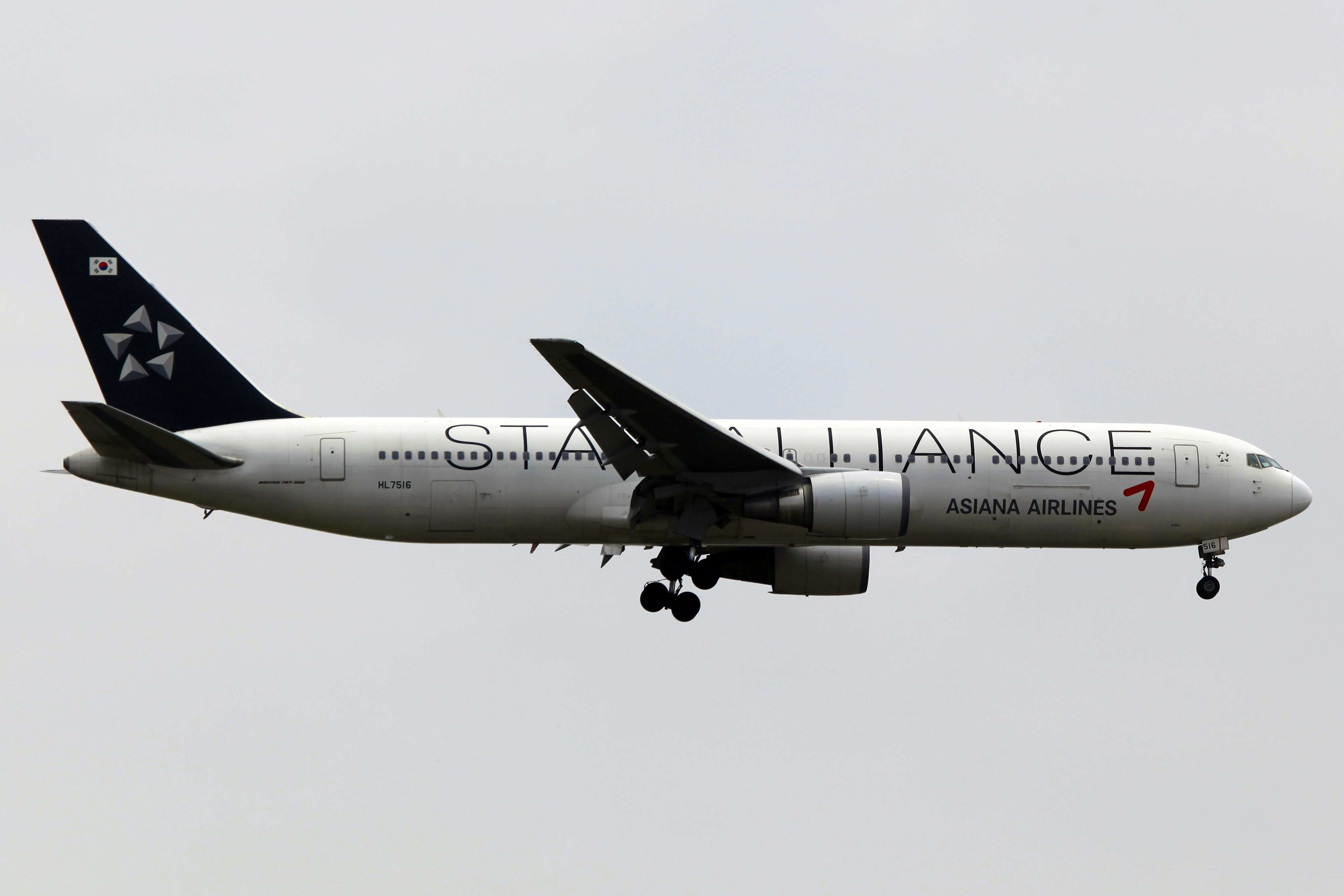 HL7516 | Asiana Airlines | Boeing 767-38E | Star Alliance Livery | Shanghai Pudong International Airport [PVG]